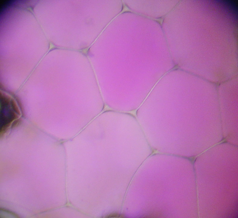 Epidermis cells of Rhoeo Discolor(Tradescantia); the vacuoles fill out the whole cell bodies. Size: Field of view ca. 450 µm